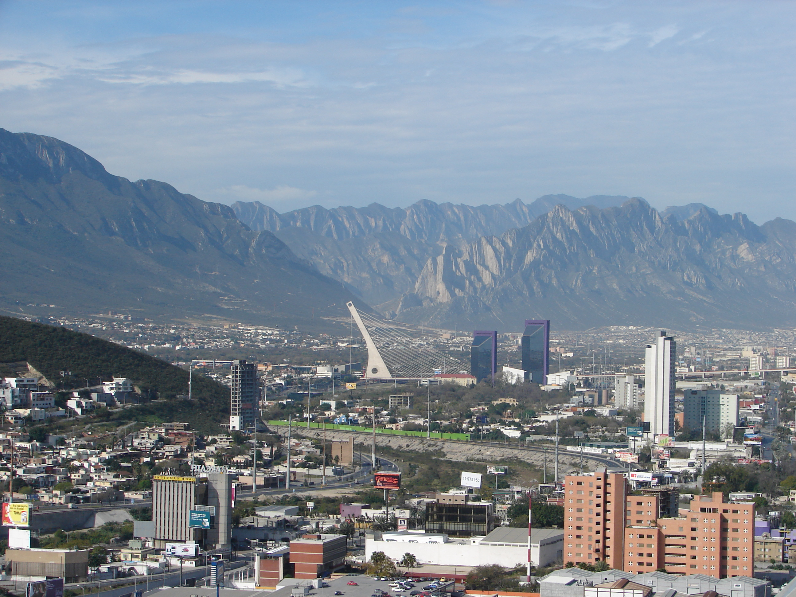 La Huasteca climbing area, seen from El Obispado, in Monterrey, México.